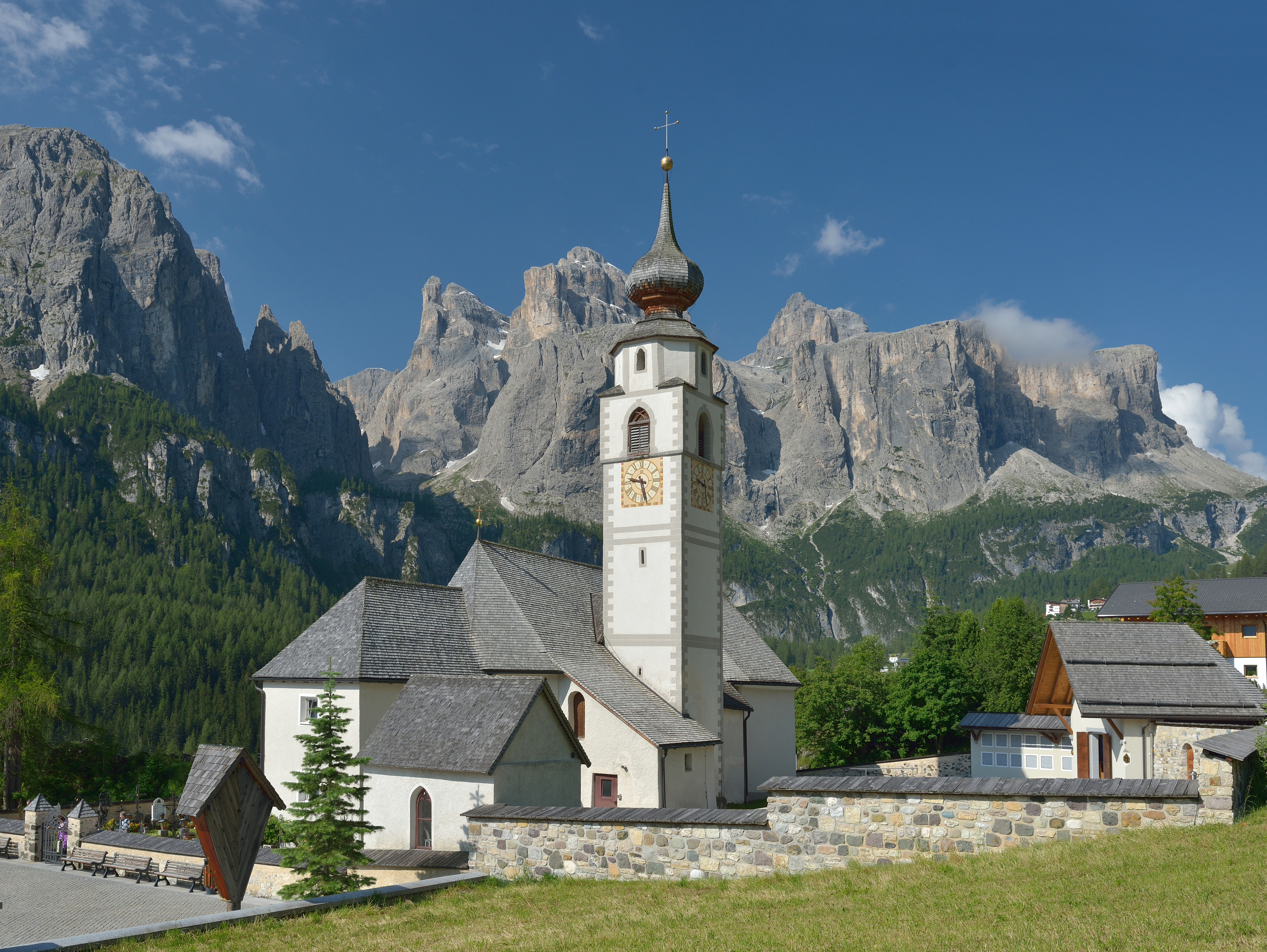 Parish church Vigilius of Trent in Kolfuschg